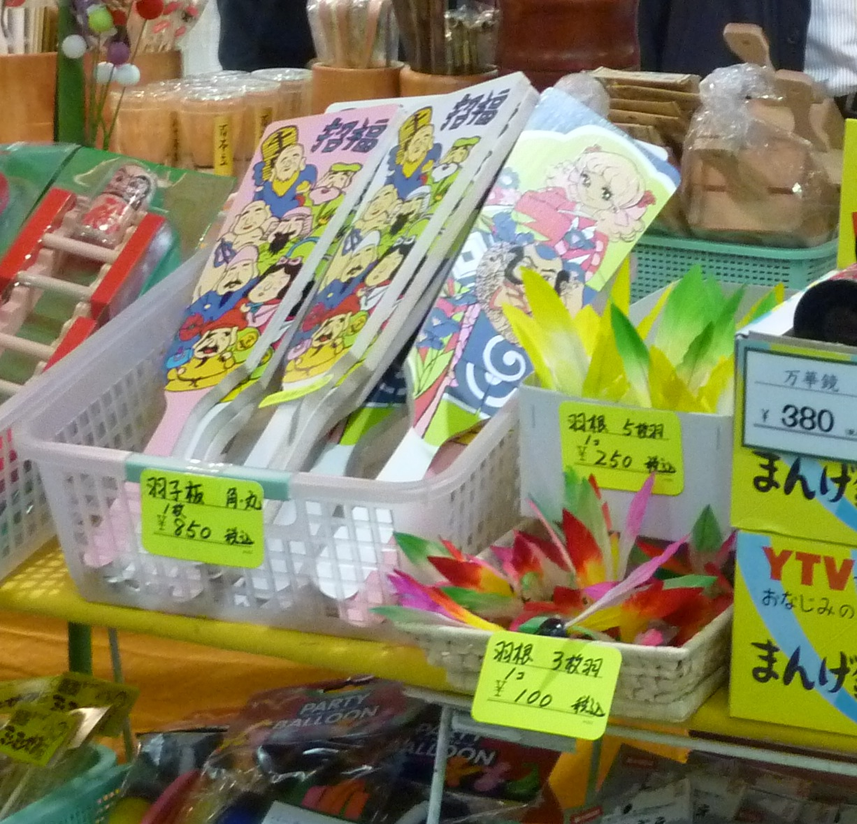 Hanetsuki is a Japanese traditional game, similar to badminton except there is no net, and is played with a rectangular wooden paddle.